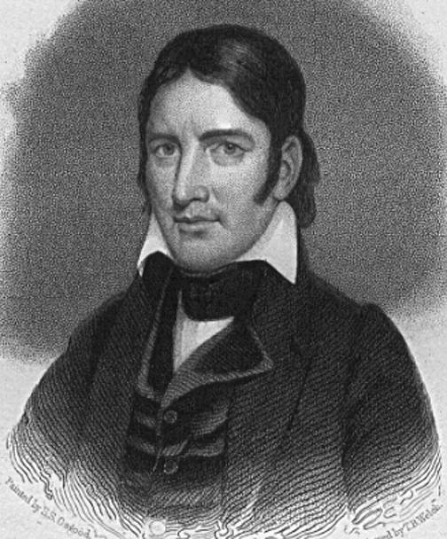 David Crockett, portrait